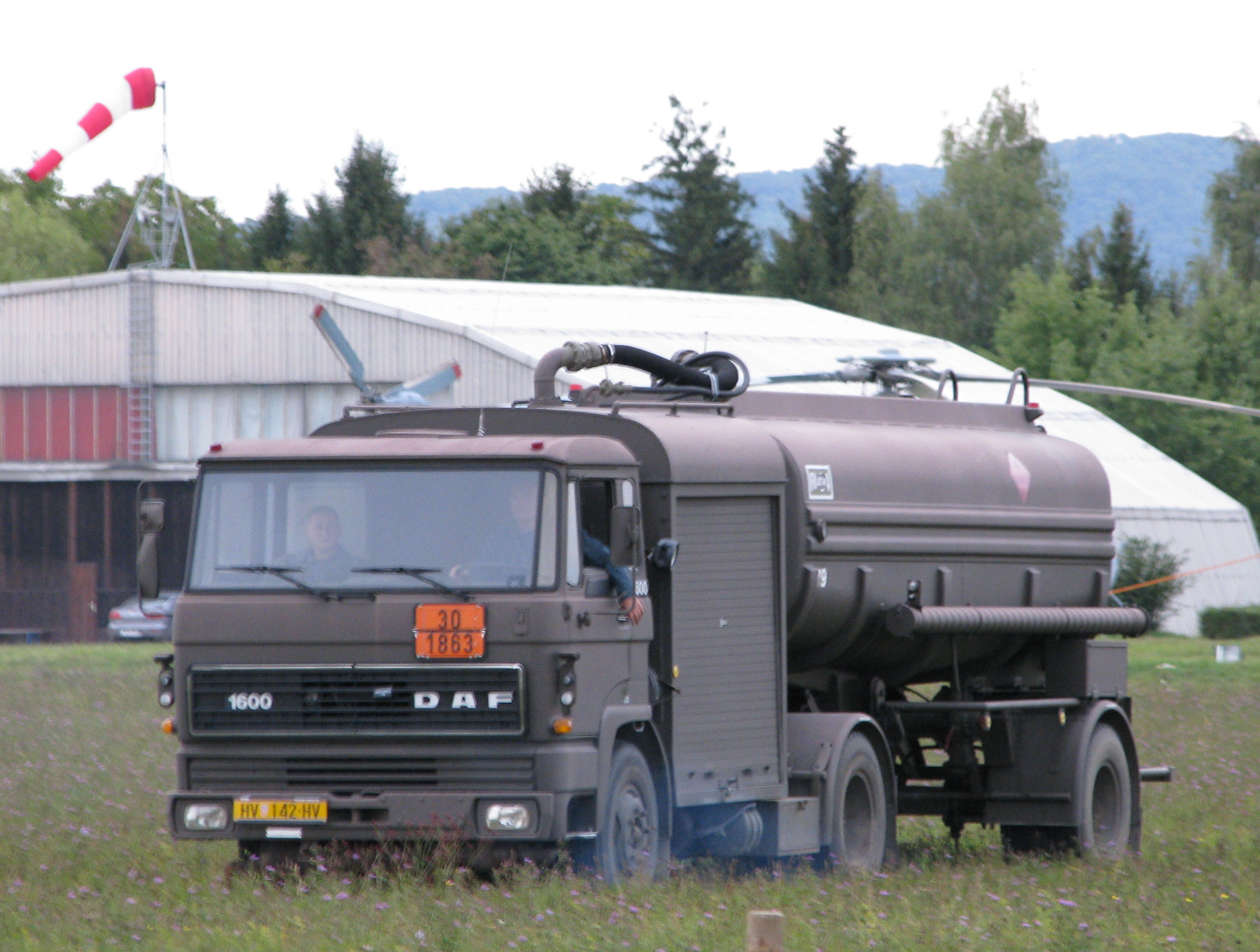 DAF 1600 airport tank truck in Lučko Airport, Croatia.